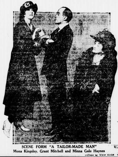 Photograph of scene from 1917 Broadway play "A Tailor Made Man" with Grant Mitchell, Mona Kingsley, and Minna Gale Haynes in photograph. Photo appeared in New York Tribune on September 2, 1917